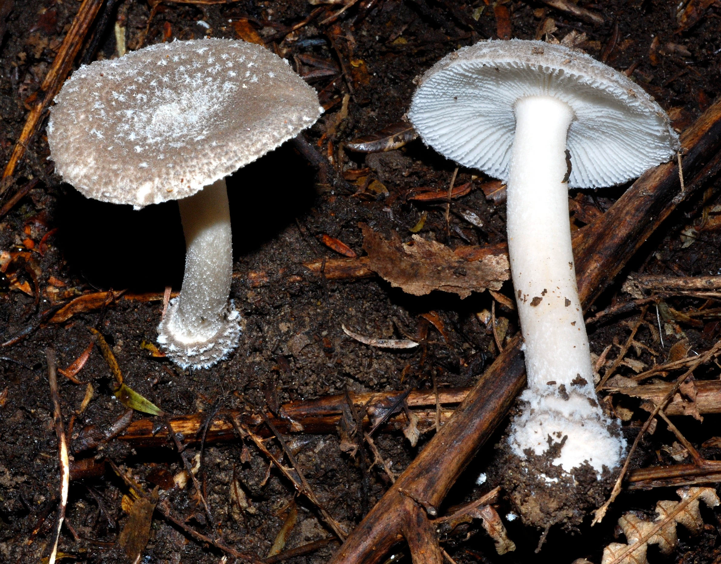 Amanita nehuta (G. S. Ridl.) Location: Kaipara harbour, Auckland, New Zealand. Notes: Found under Leptospermum scoparium and Cyathea dealbata in lowland New Zealand scrub.